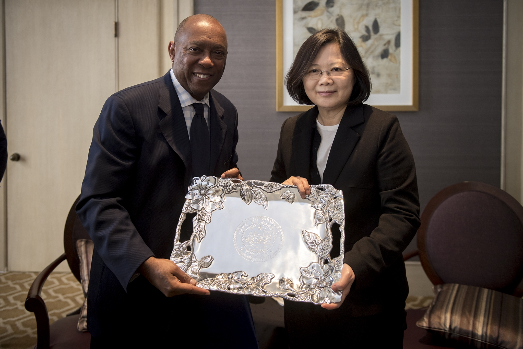 授權方式及範圍：中華民國總統府│政府網站資料開放宣告 Authorization Method & Scope: Office of the President, Republic of China (Taiwan) | Government Website Open Information Announcement